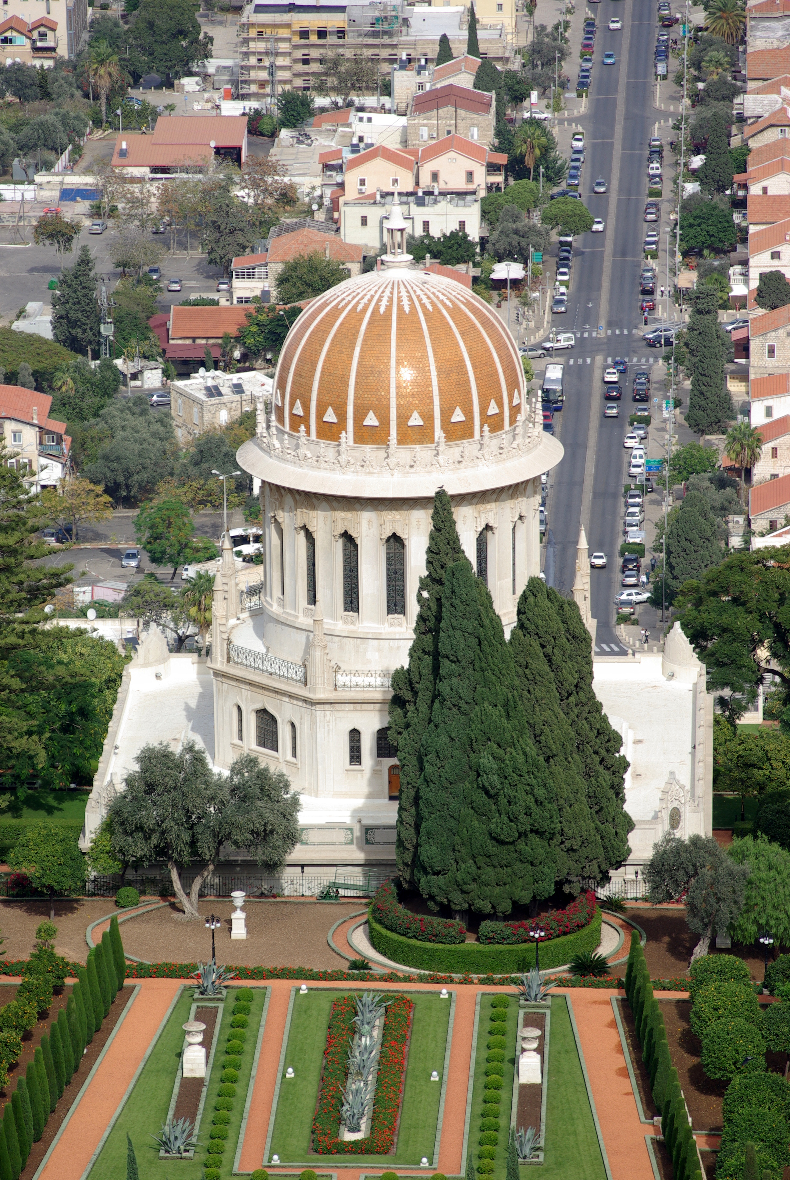 Haifa, Shrine of the Báb